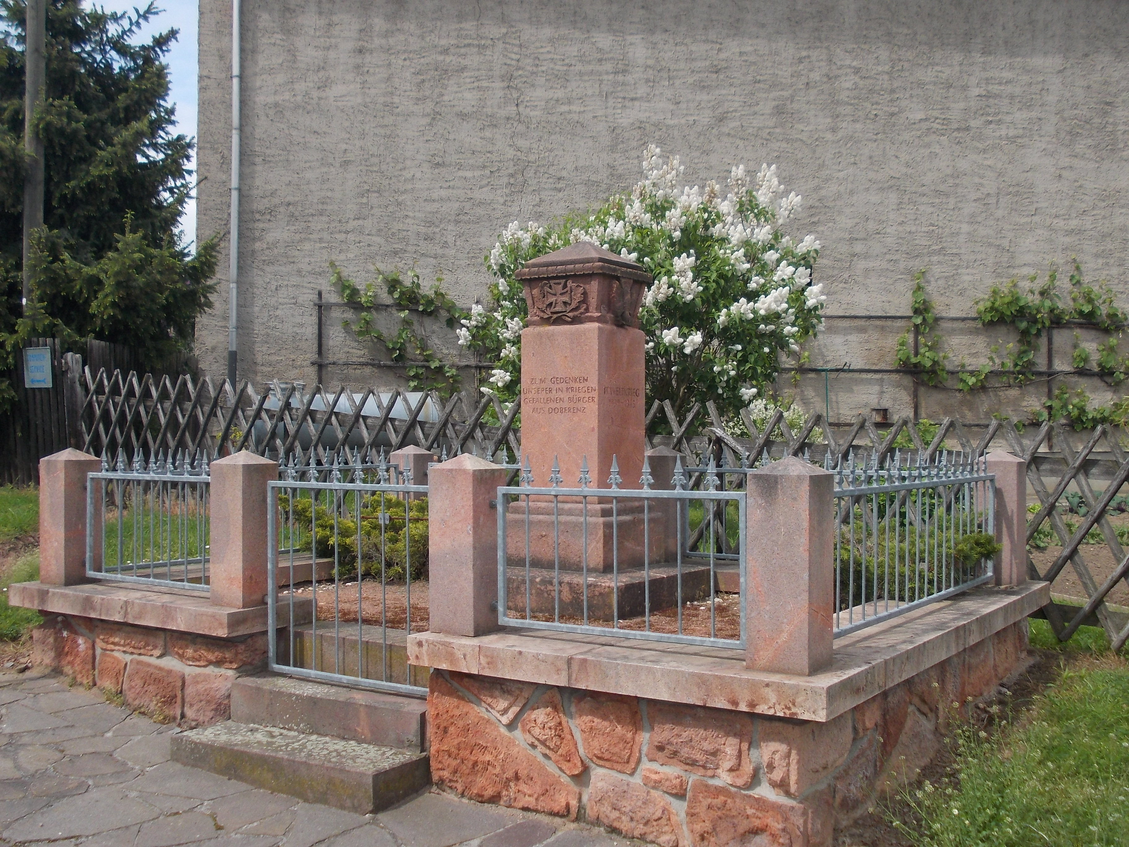 World War I and II memorial in Doberenz (Königsfeld, Mittelsachsen district, Saxony)